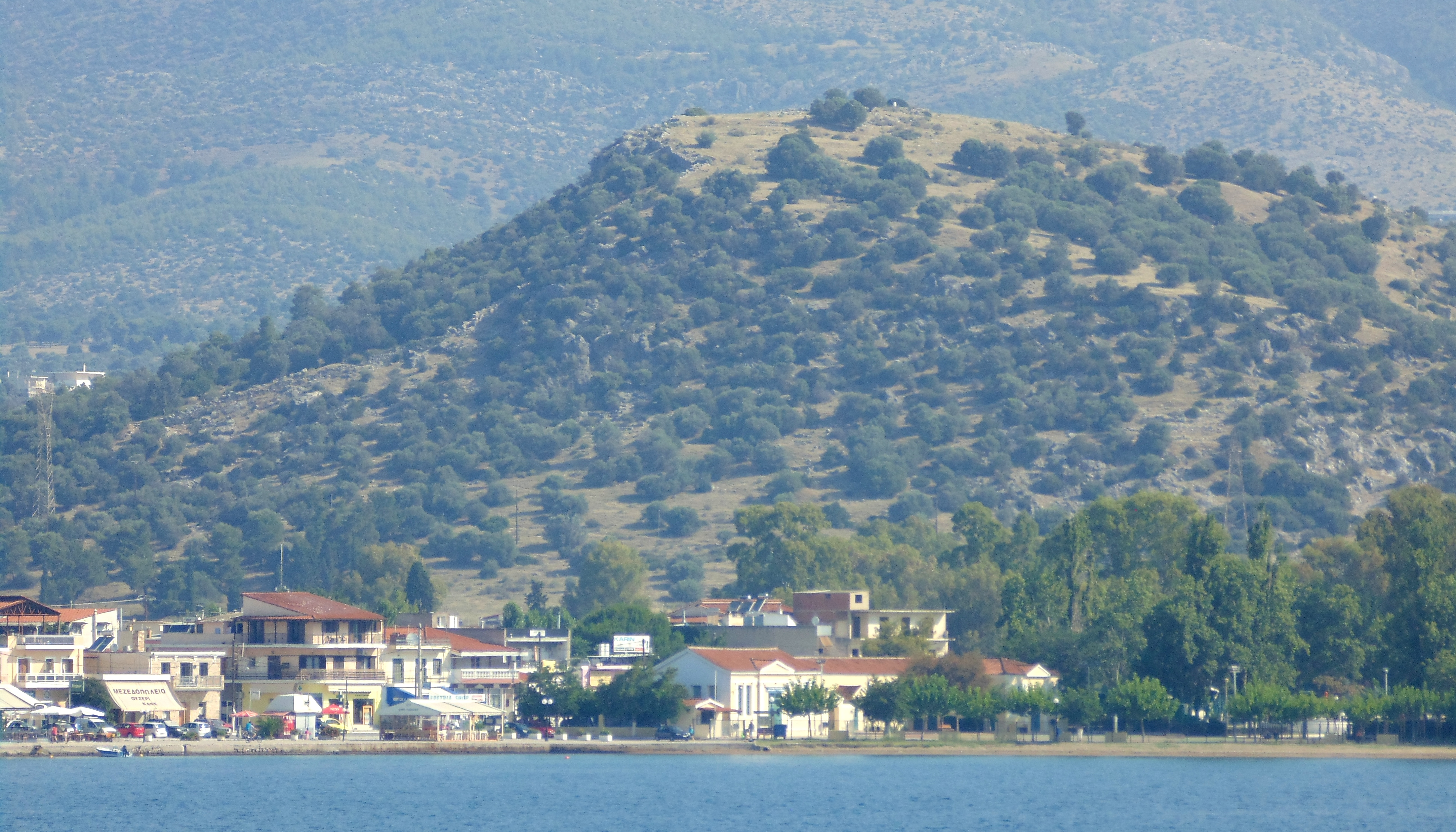 Acropolis